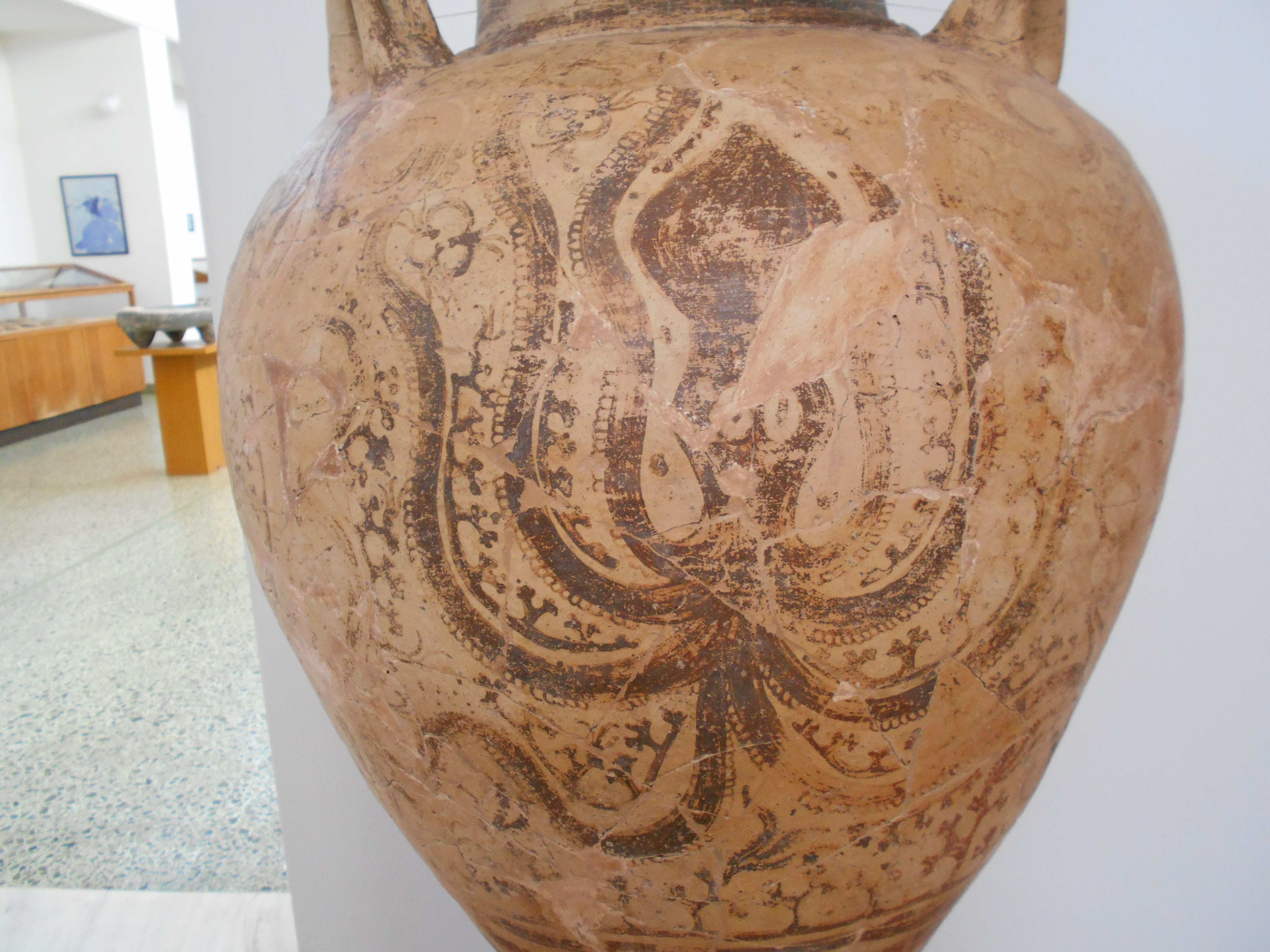 Octopus, Chora Archaeological Museum, Pylos